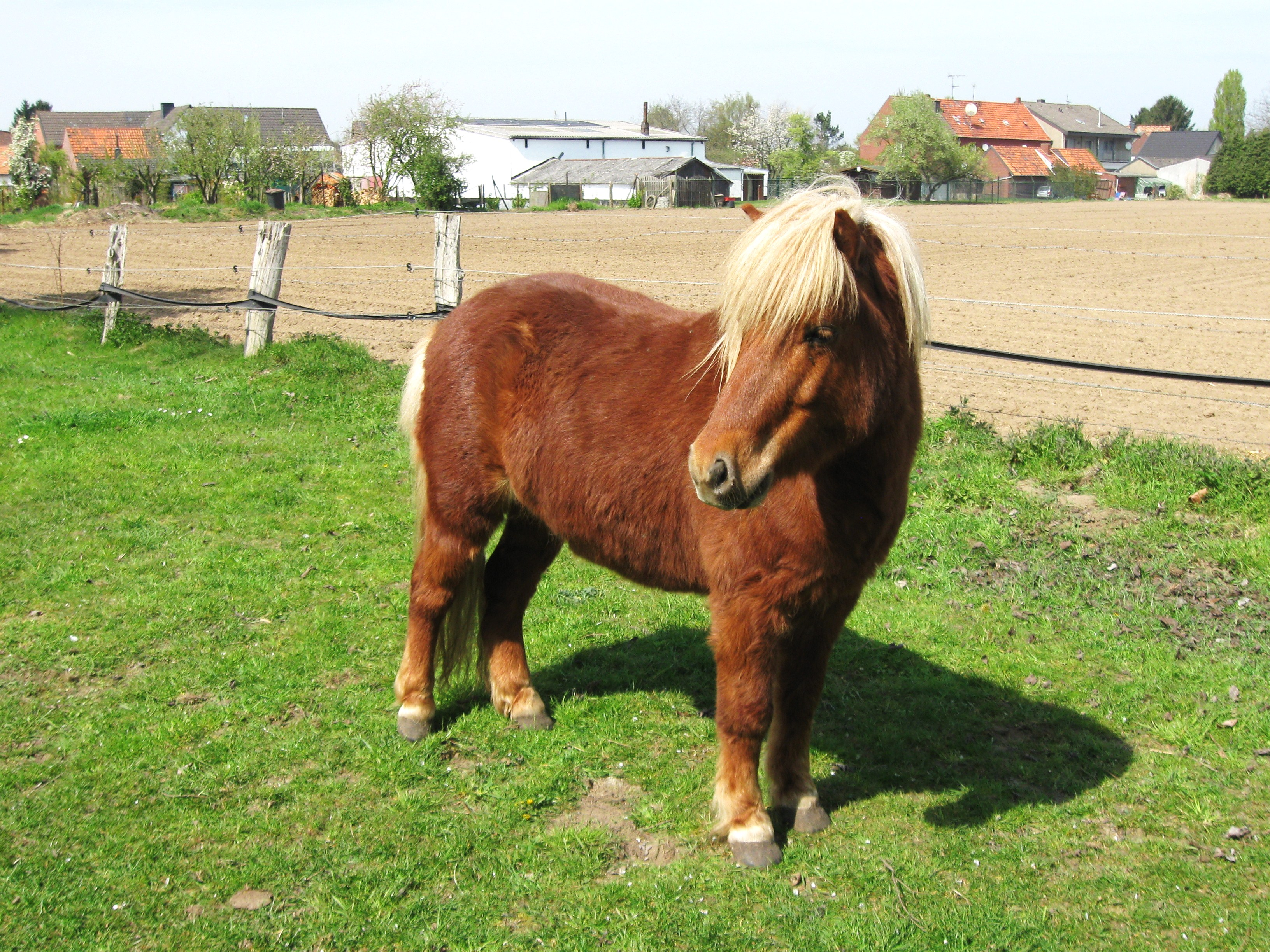 German Part-Bred Shetland Pony gelding